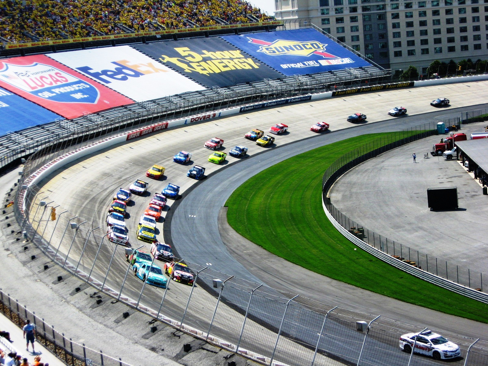 Start of the 2012 NASCAR Sprint Cup Series FedEx 400 at Dover International Speedway